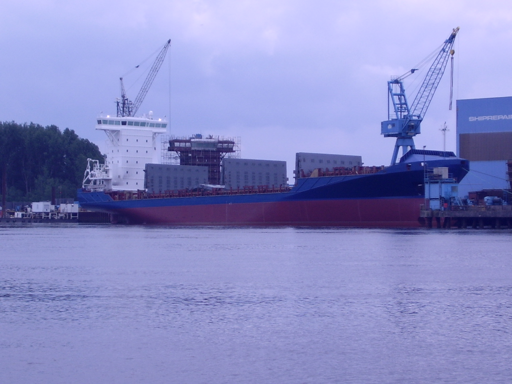 The Rolandwerft shipyard; North of Bremen; Germany